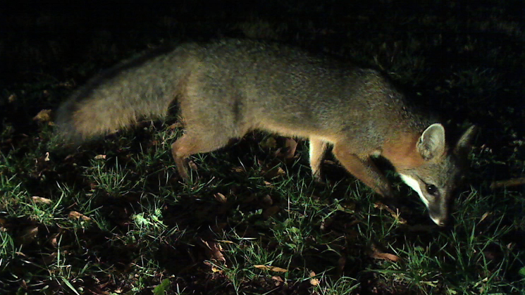 Grey fox, Urocyon cinereoargenteus